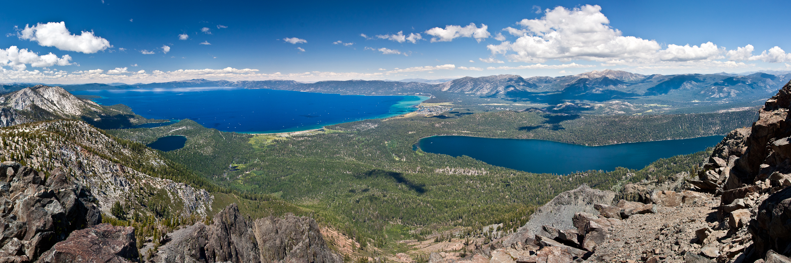 Lake Tahoe and Falling Leaf Lake from Mount Tallac. El Dorado County, CA, July 2012.